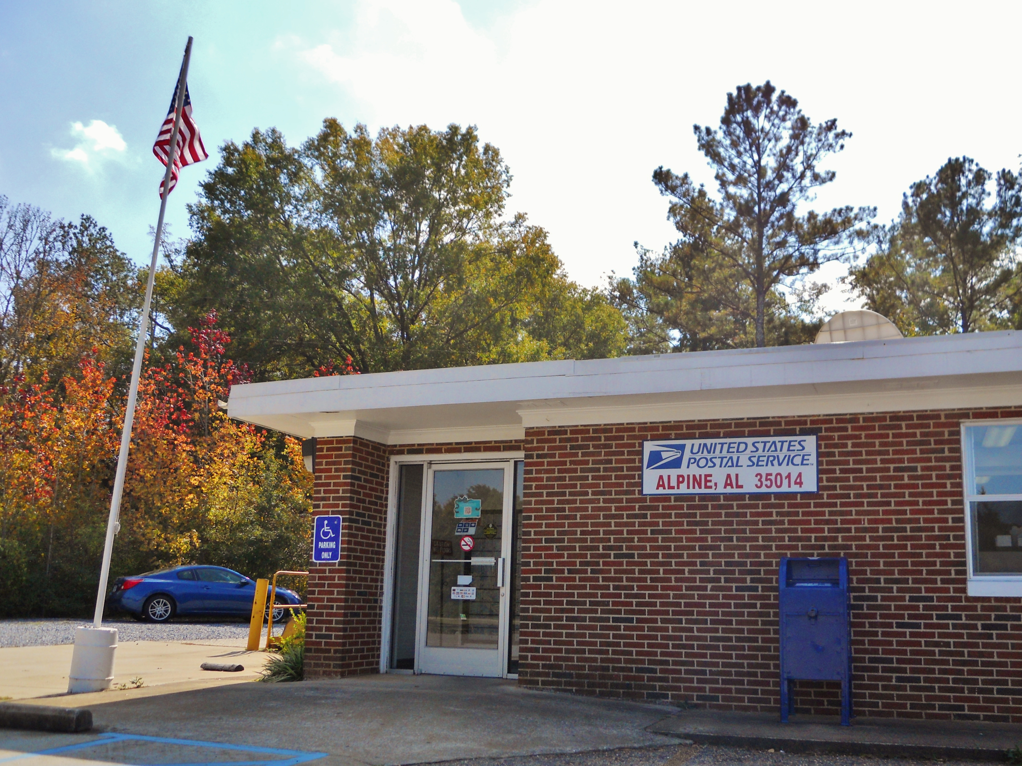 This is a photograph of the post office in Alpine, Alabama. The zip code is 35014.